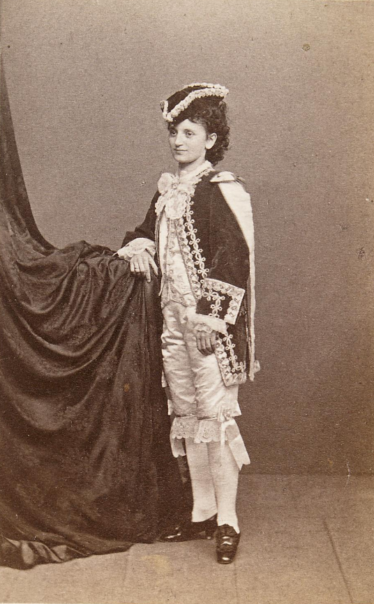 Bohemian German singer Angelika Suttner-Mussik as Prince Léon in Julius Hopp's operetta Morilla, 1870s, photograph by Otto Bielfeldt